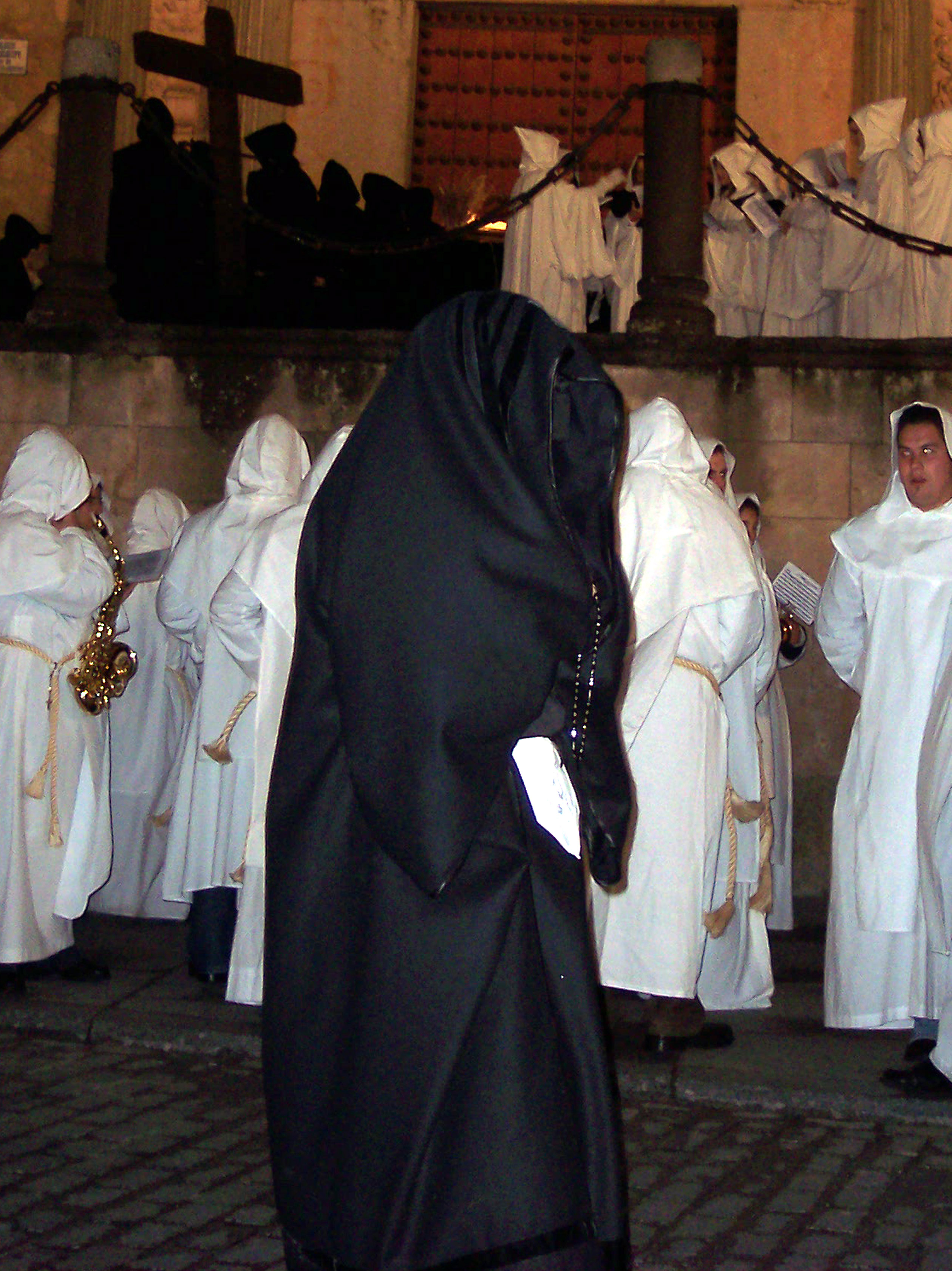 Woman in mourning in the procession of the Christ of Liberation in Holy Week in Salamanca, Spain